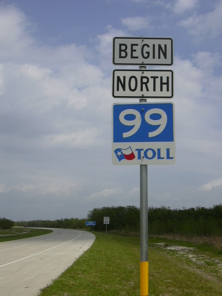 Sign marking the beginning of segment I-2 of Texas State Highway 99, also known as Grand Parkway.